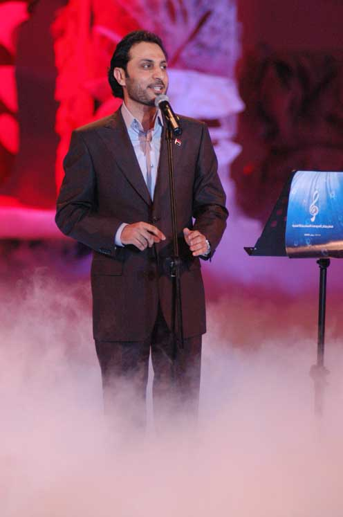 Majid Al Muhandis is an Iraqi singer and composer.